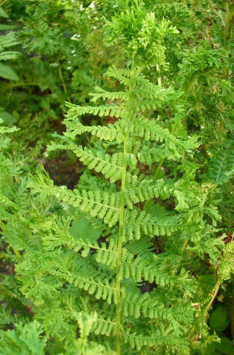 Dryopteris filix-mas 'Cristata' (Leaf)